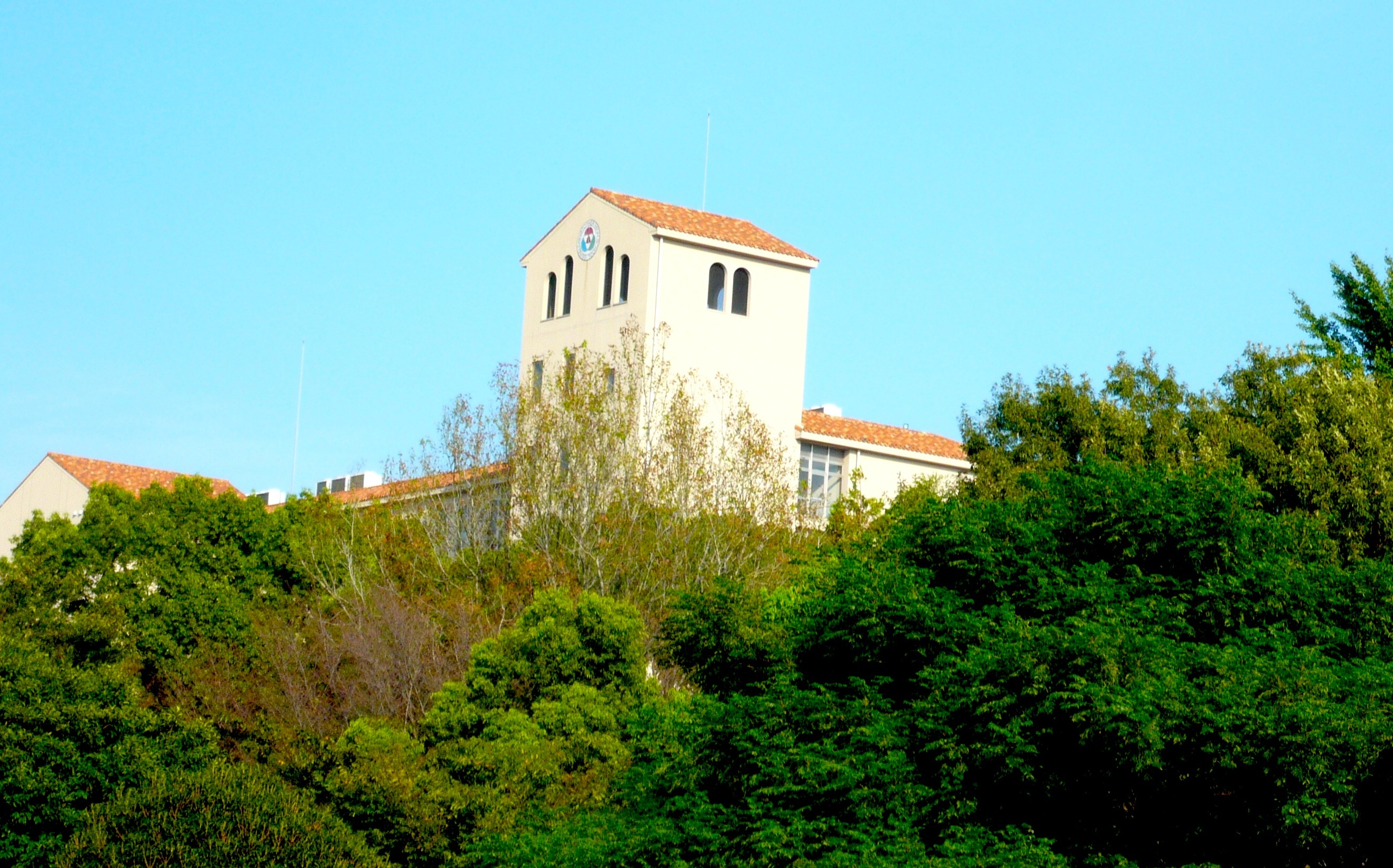 Seirei Christopher High School, Hamamatsu, Shizuoka